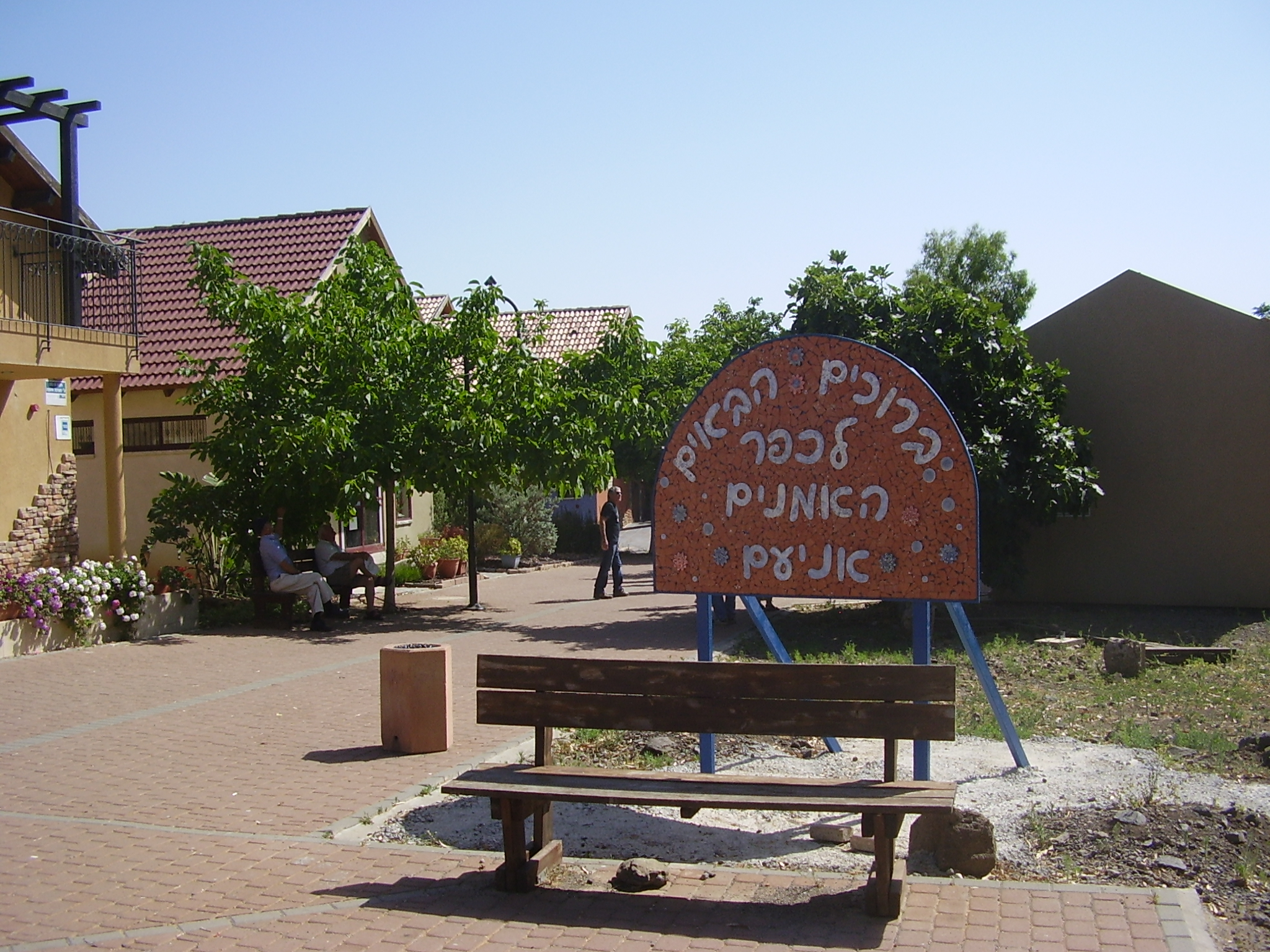 Aniam artists village, Golan Heights